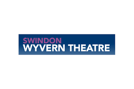 the 4th and current logo